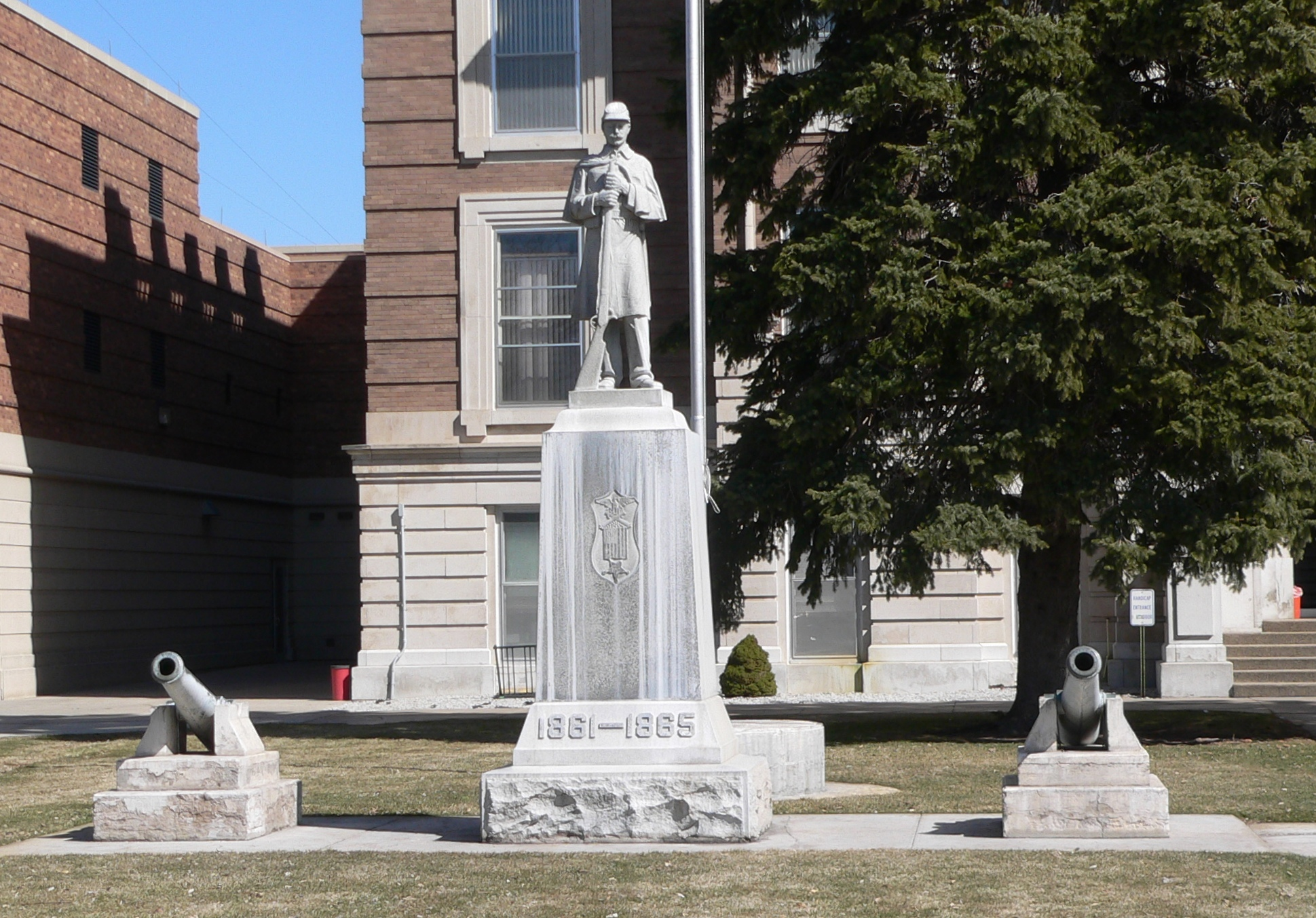 Civil War memorial in front (west) of the Dawson County Courthouse in Lexington, Nebraska. The courthouse was designed in Beaux-Arts style by architect William F. Gernandt and built in 1913. It is listed in the National Register of Historic Places.